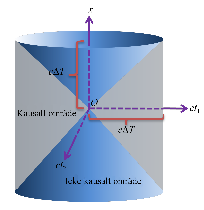 Swedish version of Milenvp's (M. Velev) picture "File:Causal structure of a space-time with two time dimensions and one space dimension.pdf".